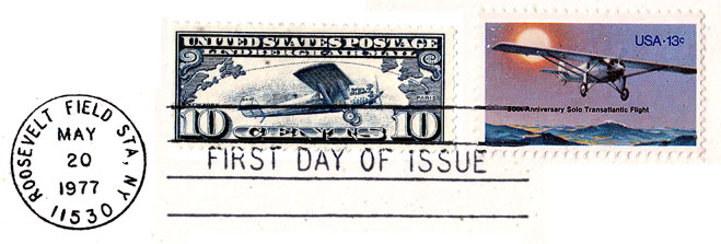 "Lindbergh Air Mail" 10-Cent (Scott C-10) and Spirit of St. Louis 50th Anniversary 13-Cent (Scott #1710) cancelled with Roosevelt Field Sta. CDS & "First Day of Issue" killer bars dated May 20, 1977. (The Cooper Collections)